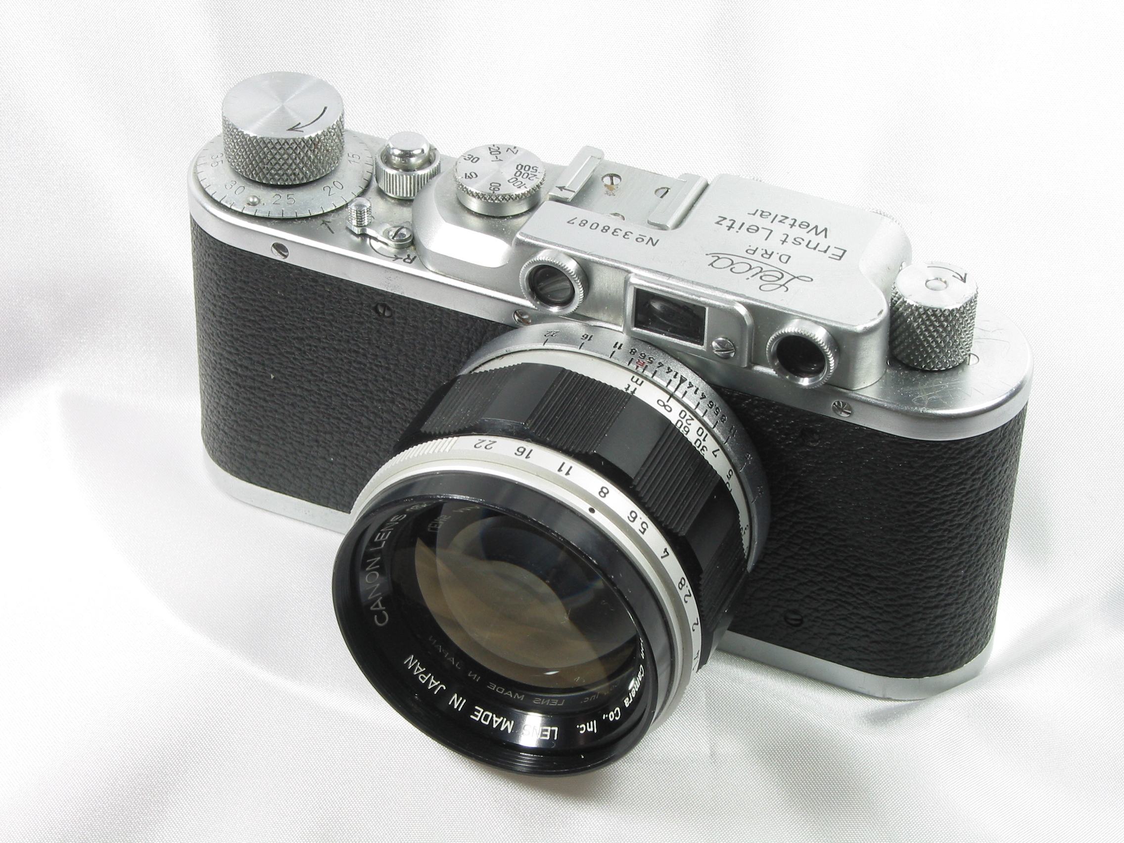 Leica II with Canon F1.4 50mm